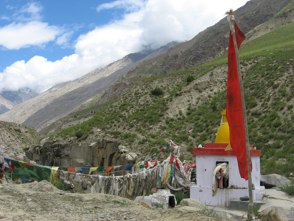 Tibetan prayer flags and Indu shrine, Palamo, Himachal Pradesh, India